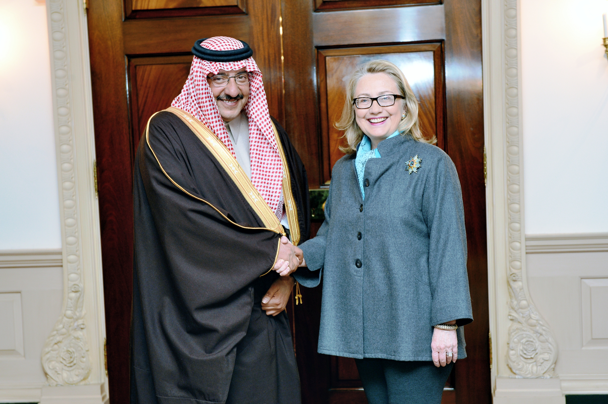 U.S. Secretary of State Hillary Rodham Clinton shakes hands with Interior Minister of Saudi Arabia, Prince Mohammed bin Naif bin Abdulaziz, at the U.S. Department of State in Washington, D.C., January 16, 2013. [State Department photo/ Public Domain]